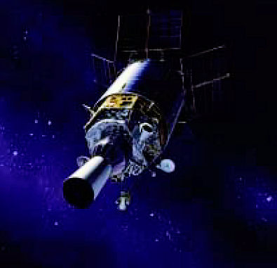 21st Space Wing - Defense Satellite Program Image